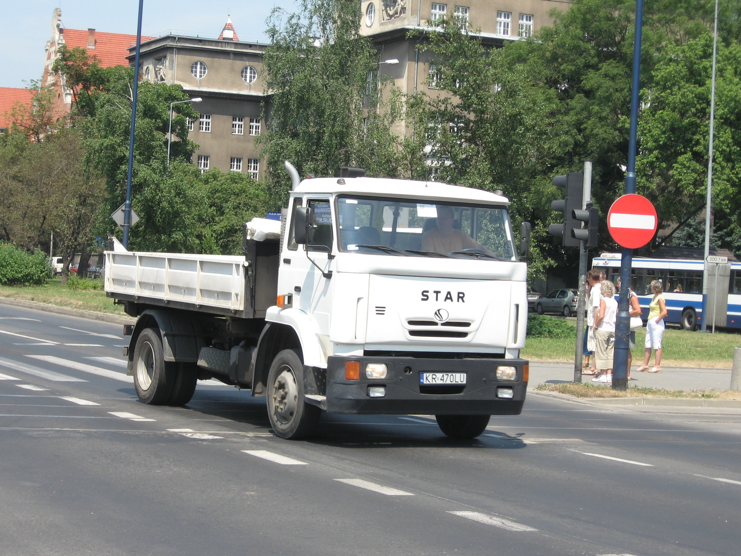 White Star 1142 on Adama Mickiewicza, Zygmunta Krasińskiego, Marszałka Józefa Piłsudskiego and Marszałka Ferdinanda Focha intersection in Kraków.